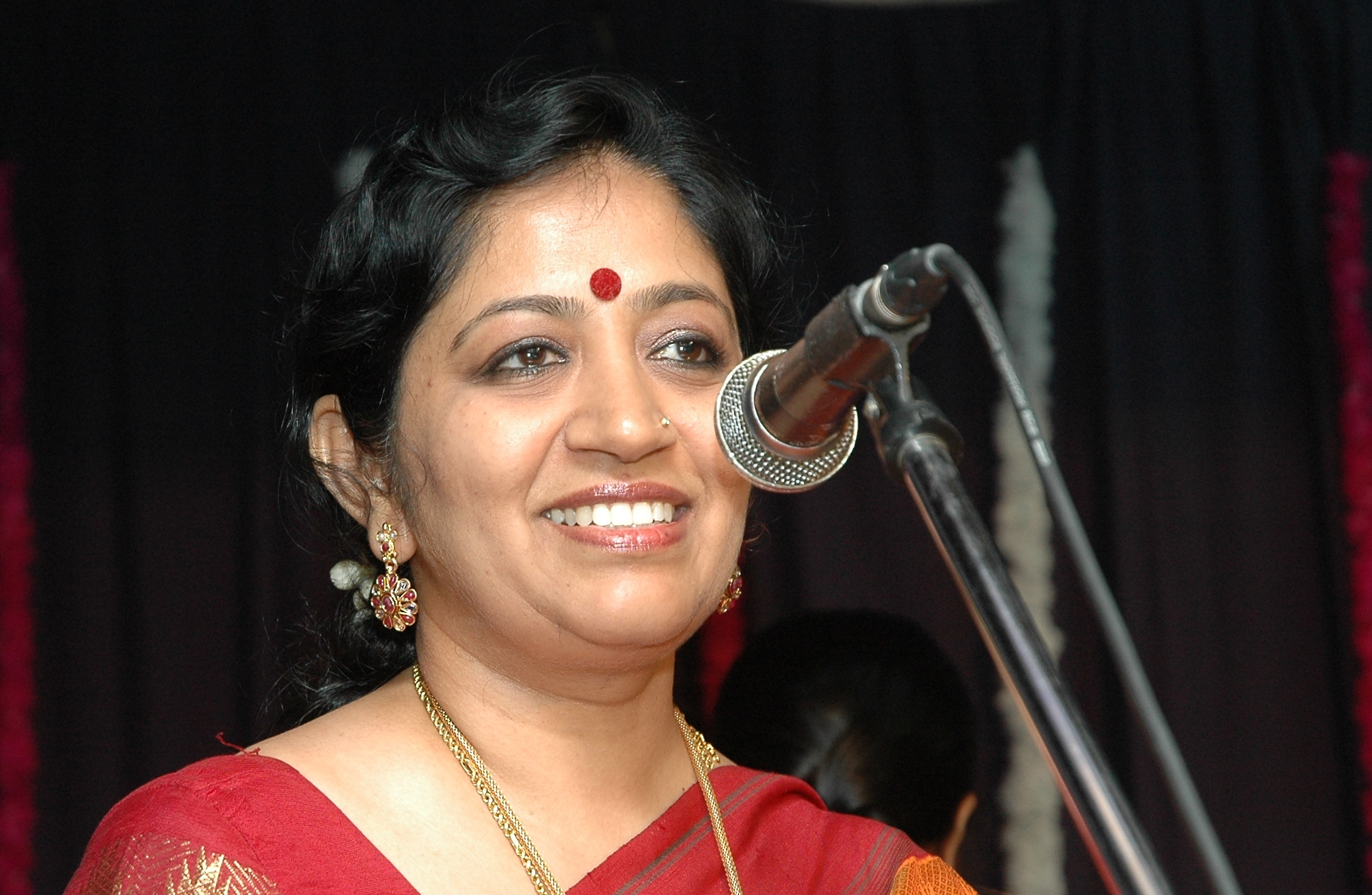 concert picture